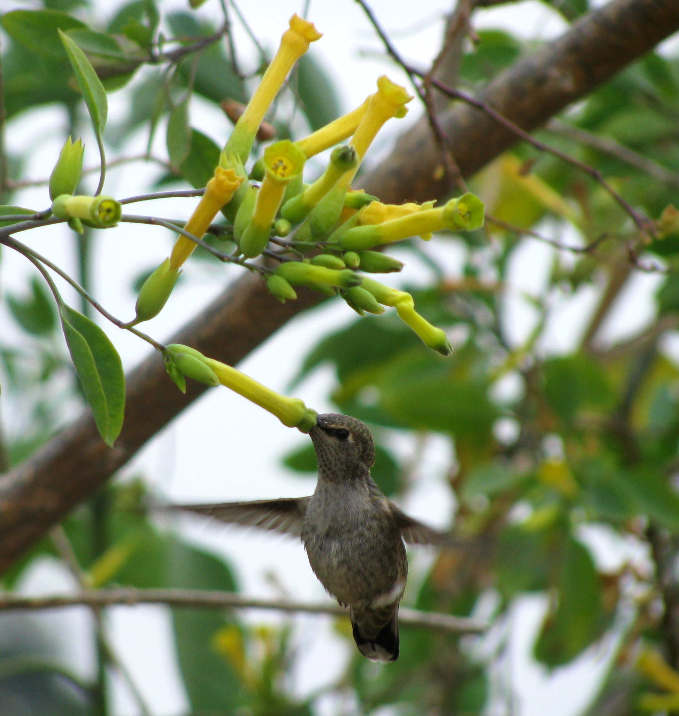 Calypte anna Anna's hummingbird, female Nicotiana glauca tree tobacco location: Ralph B. Clark Regional Park, Buena Park, CA, USA